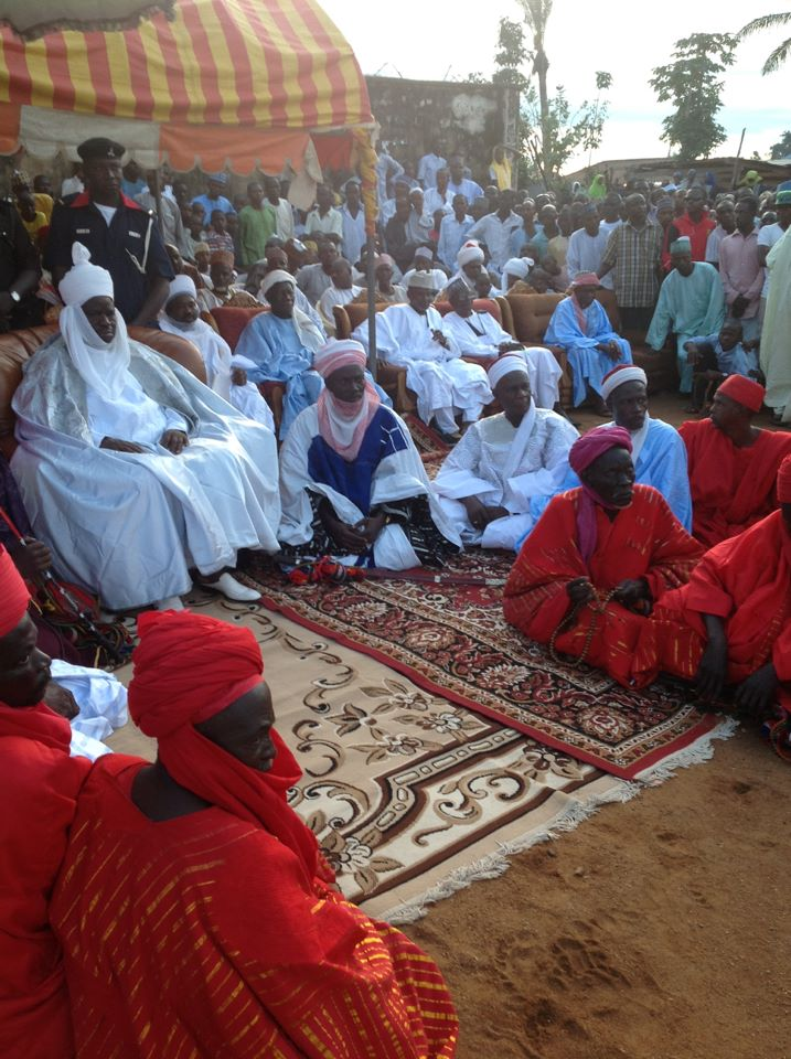 The Emir of Muri and his prime Minister. i.e Waziri